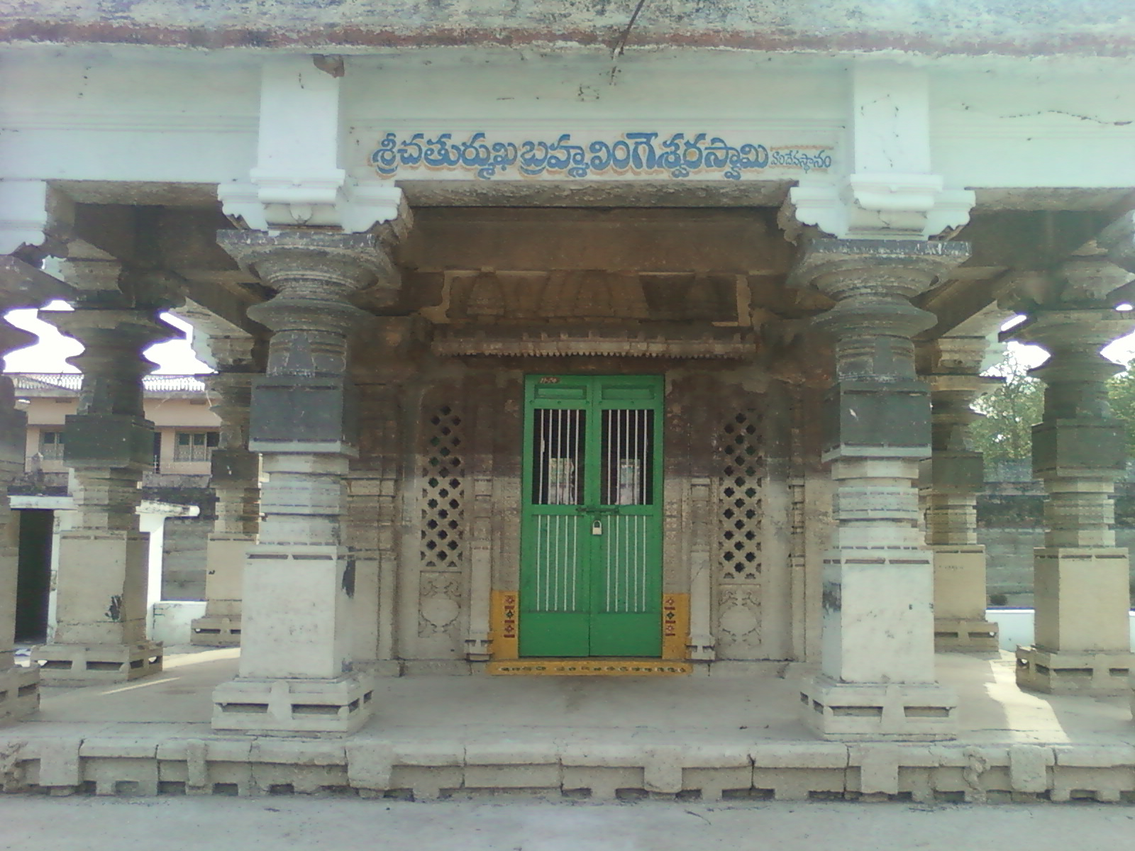 Chaturmukha Brahmalingam Temple at Chebrolu in Guntur district, Andhra Pradesh